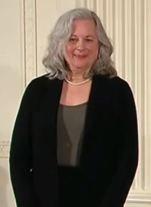 Judith Klinman receives the National Medal of Science from U.S. President Barack Obama on Nov. 20, 2014. Citation: "For her discoveries of fundamental chemical and physical principles underlying enzyme catalysis and her leadership in the community of scientists."